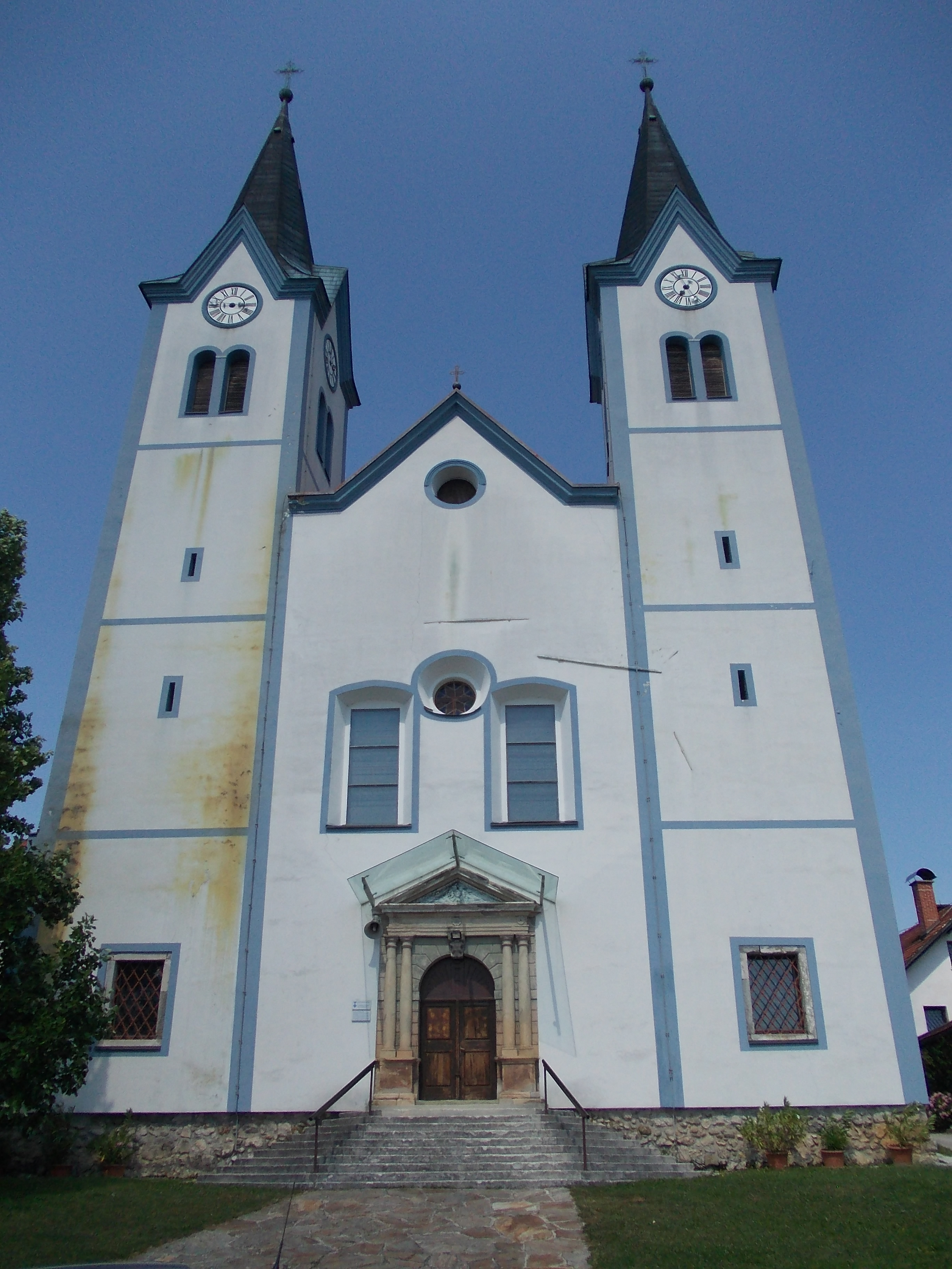 Annunciation Parish Church (Nazarje)